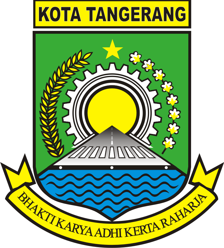 Shield of the city of Tangerang